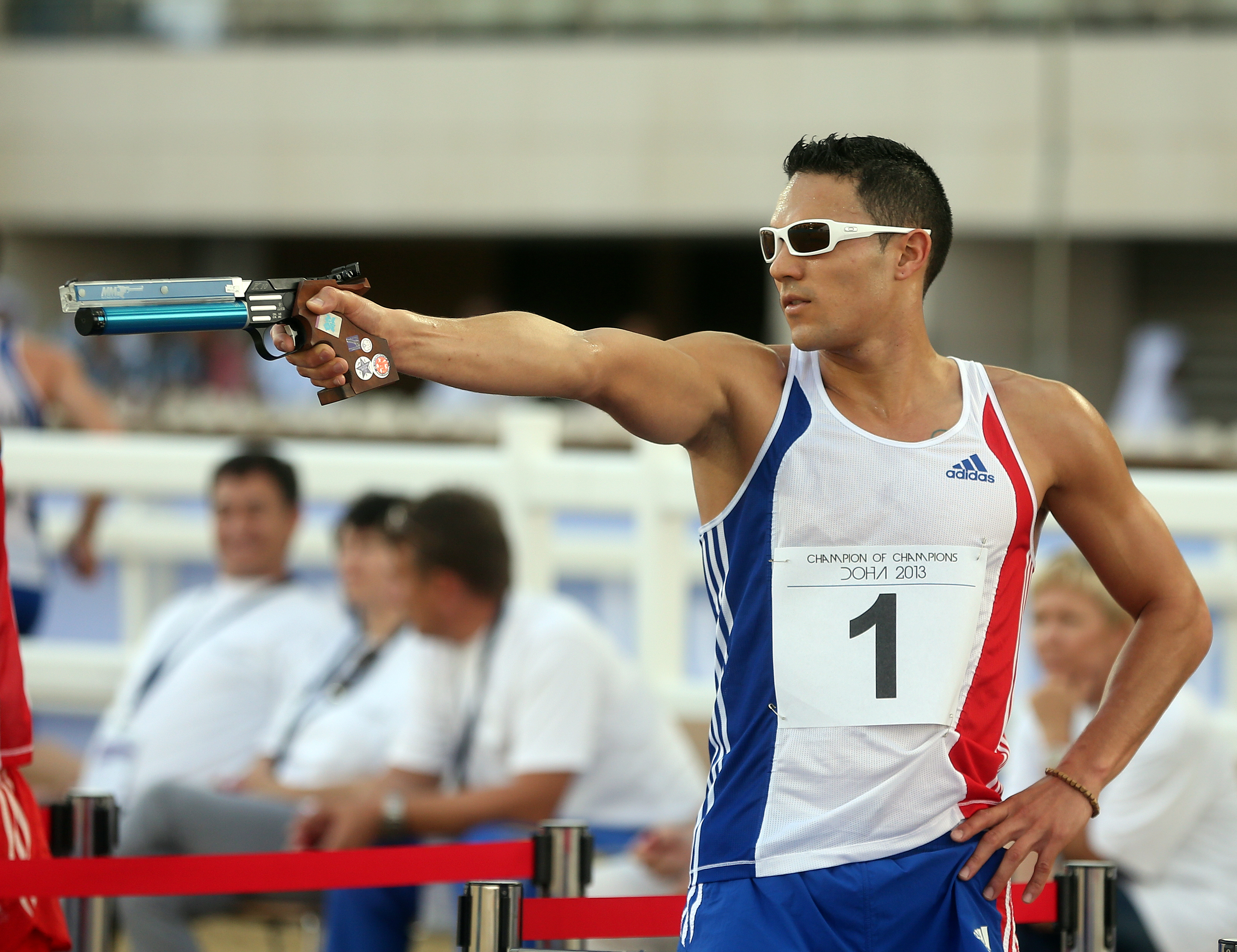 French pentathlete Christopher Patte in action during the Champion of Champions event at the Al Shaqab Stud in Doha, Qatar.